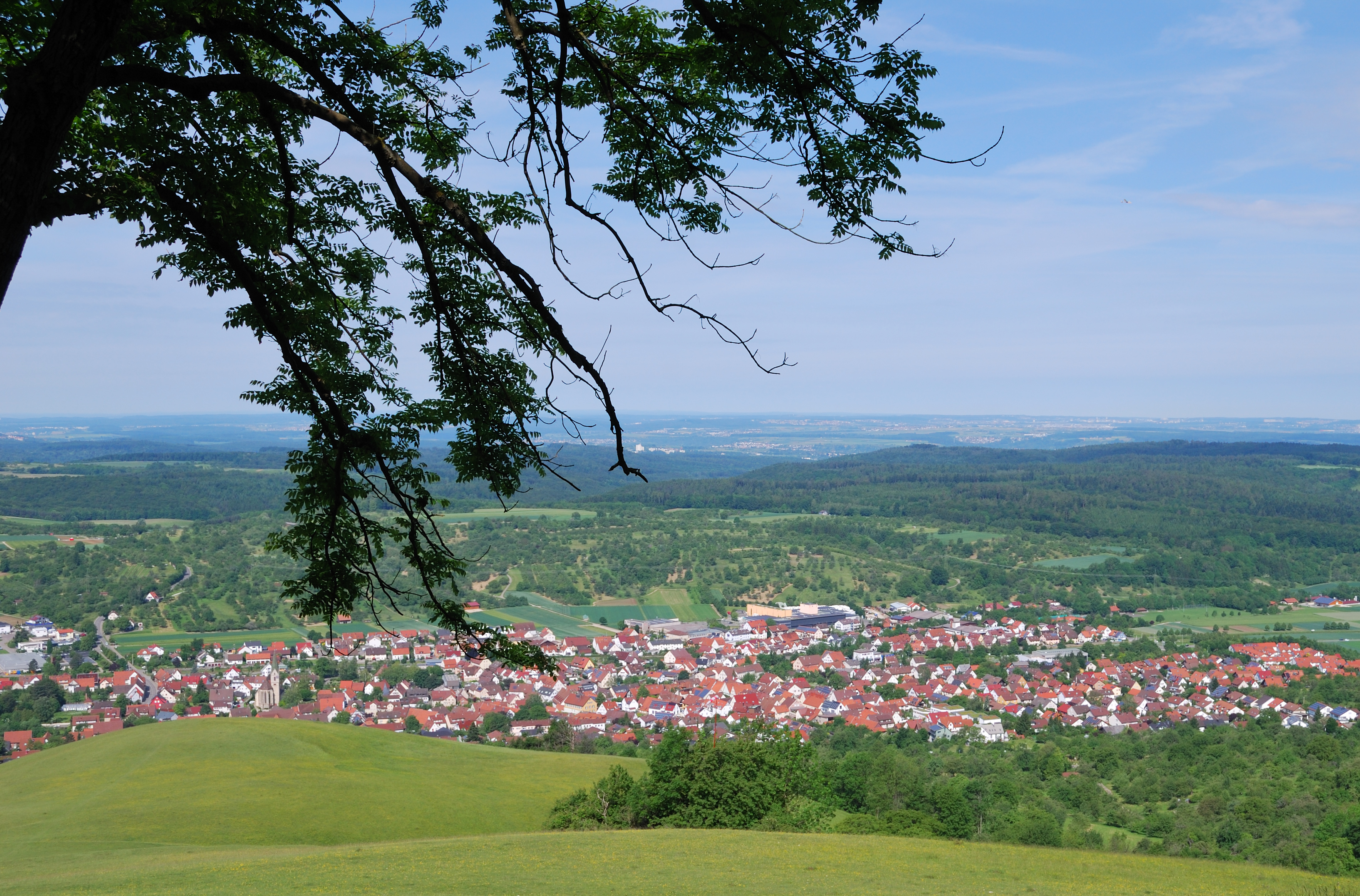 Owen in Swabian Jura in the German Federal State Baden-Württemberg.